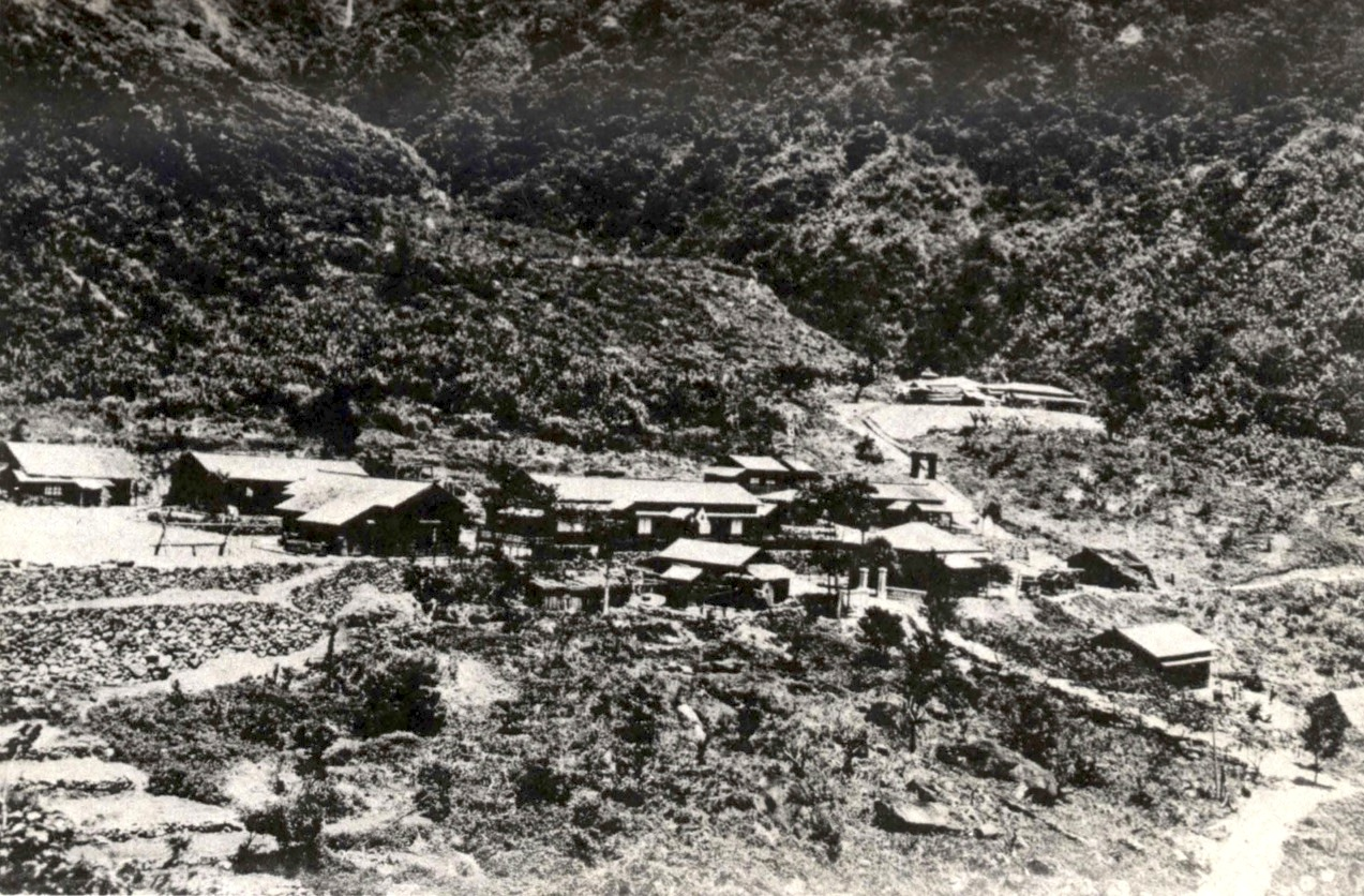 東埔溫泉 Tōho onsen